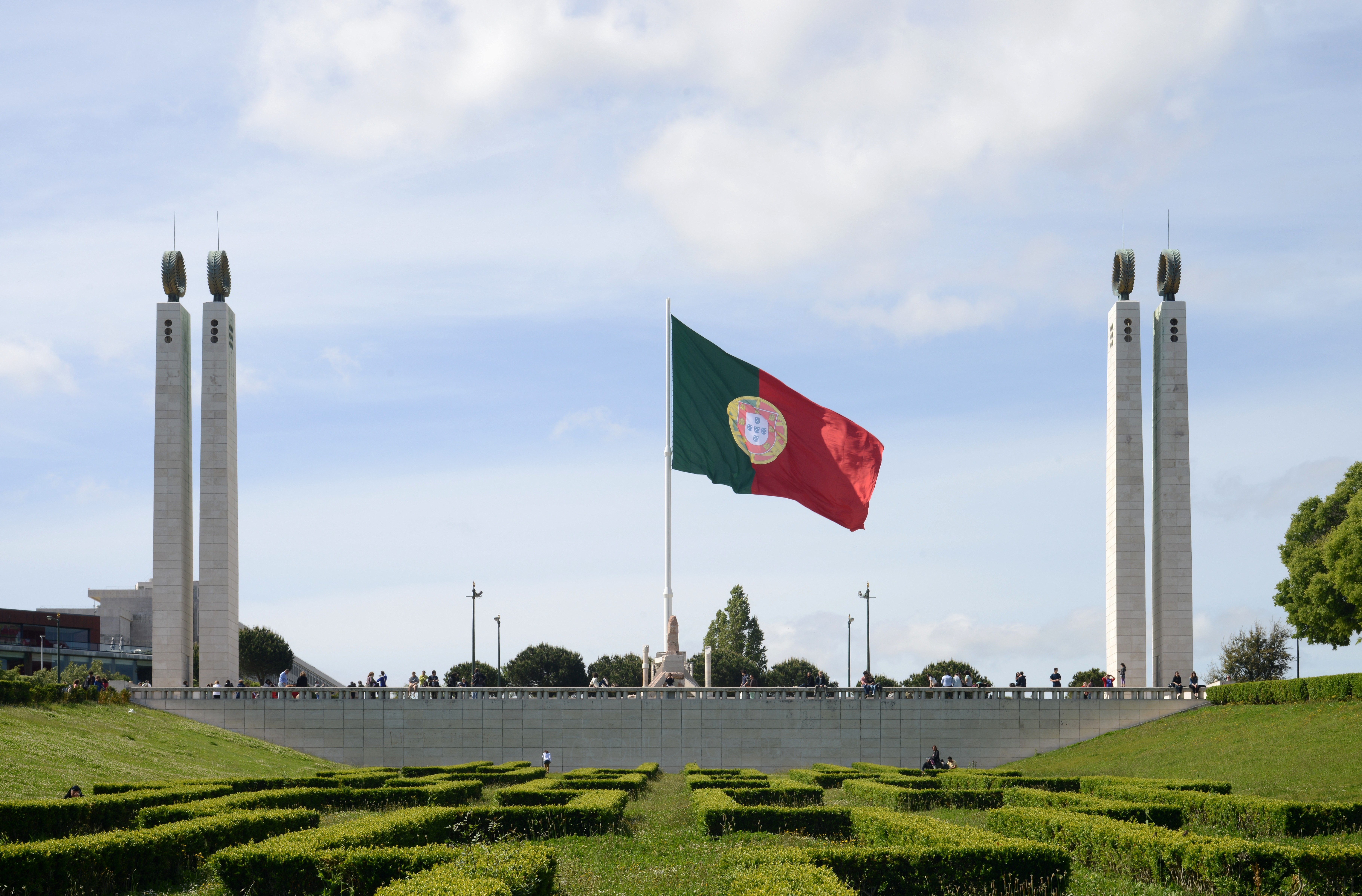 Top of Parque Eduardo VII, Lisboa, with the national flag of Portugal.